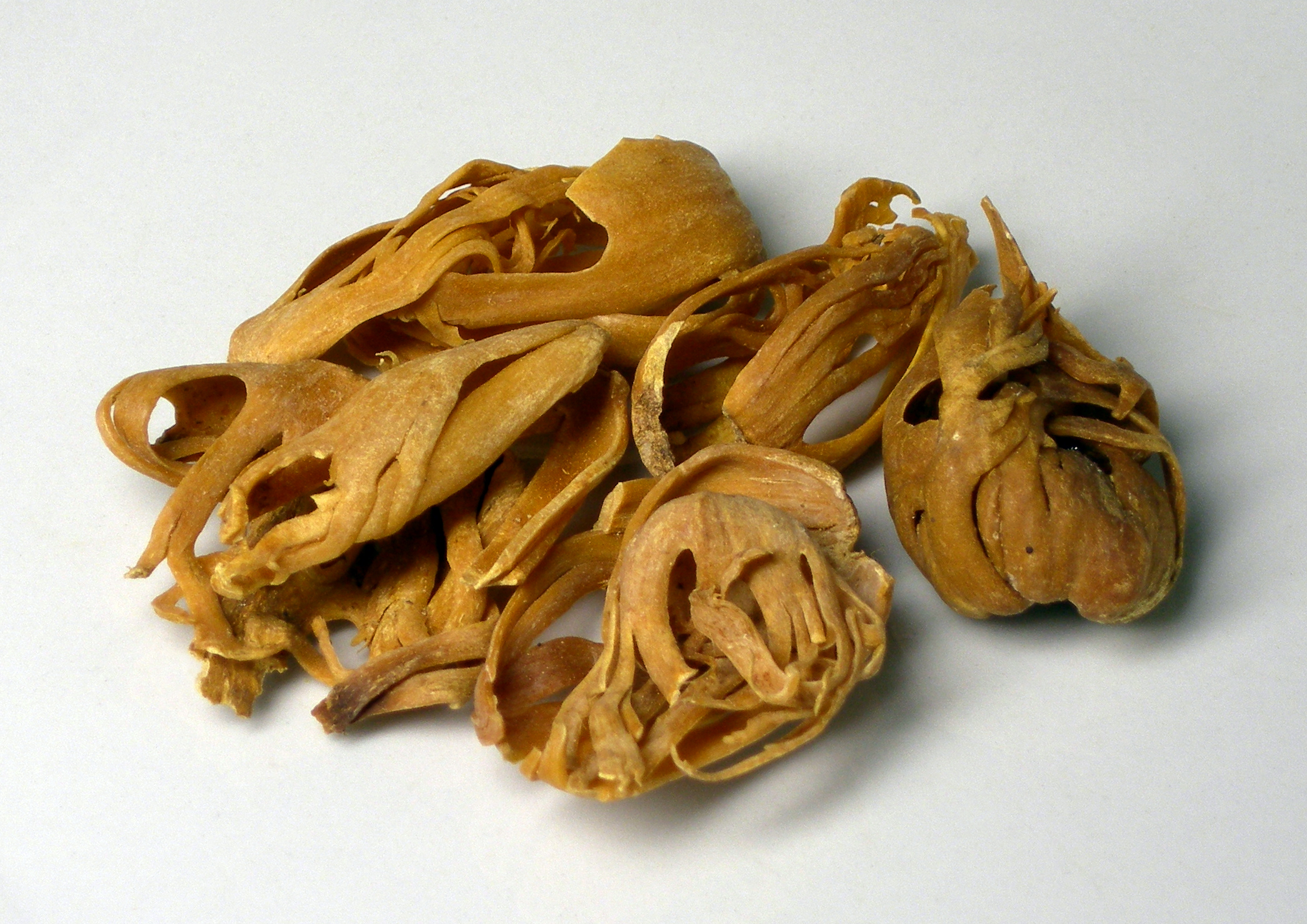 Myristica fragrans (mace (spice)).